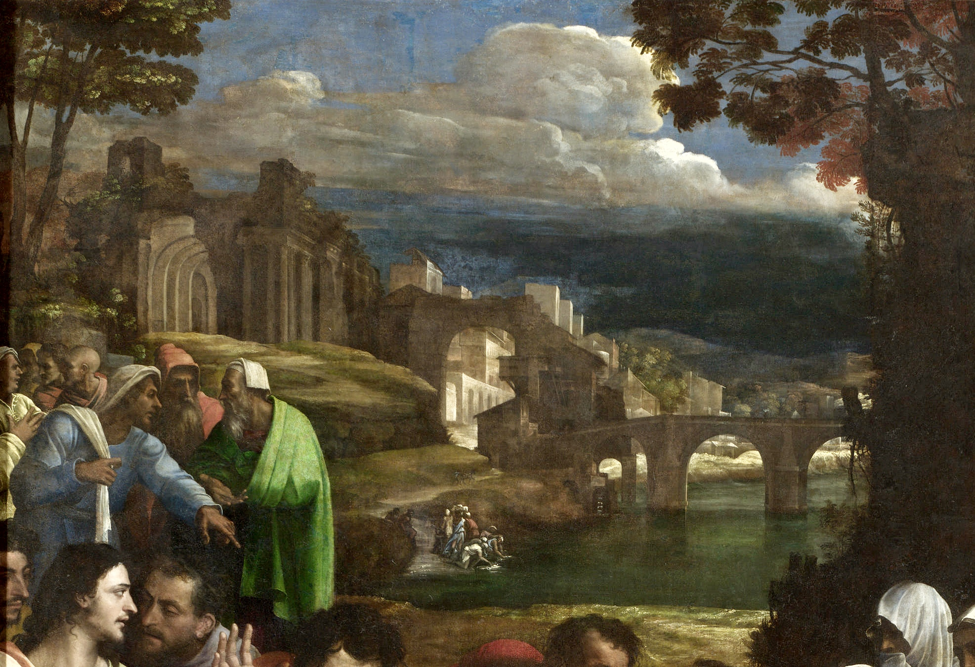 File:Sebastiano del Piombo, The Raising of Lazarus.jpg, cropped and lightened.